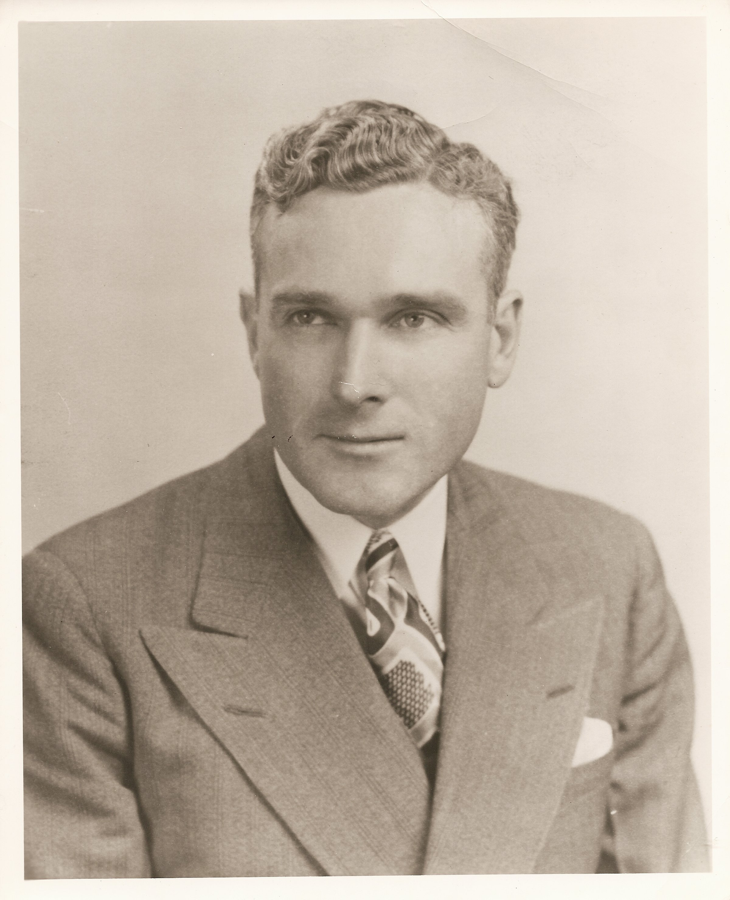 Edward Grimes Breen. Photo taken during his political years.